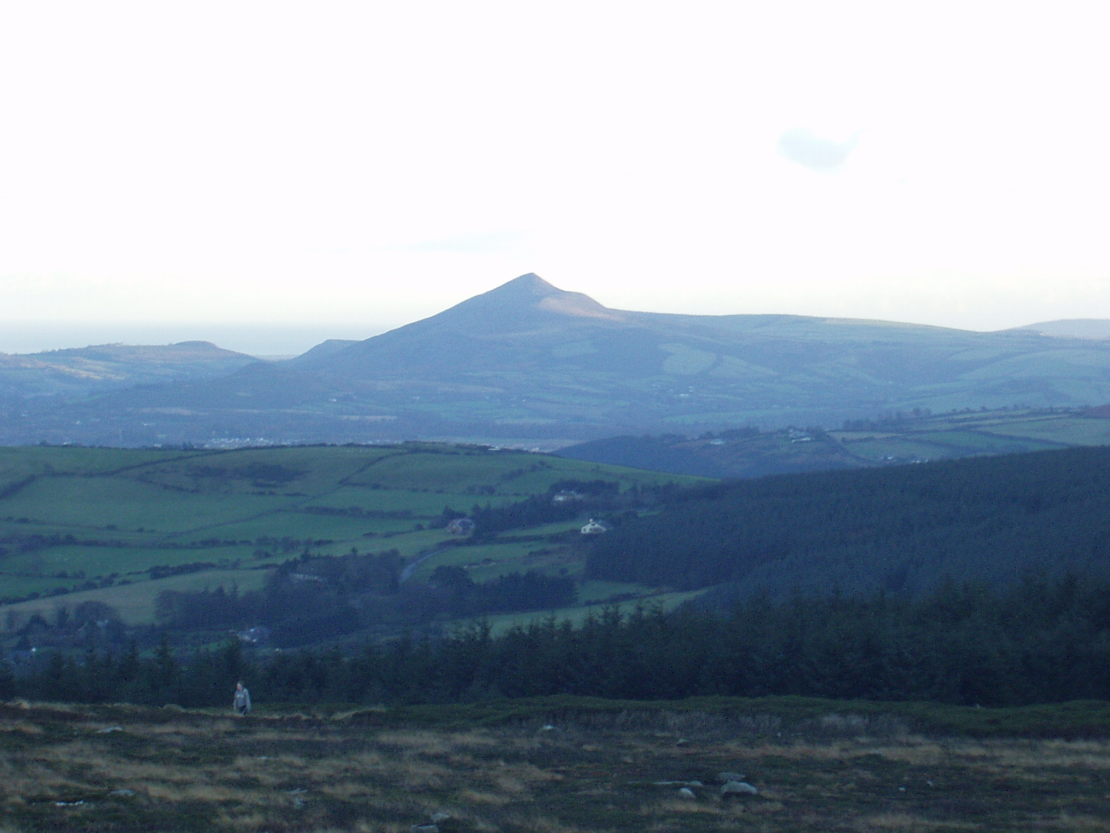 Looking south from the summit of Three Rock Mountain to the Great Sugar Loaf in County Wicklow.